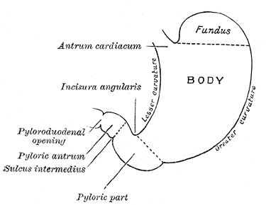 Outline of stomach, showing its anatomical landmarks.